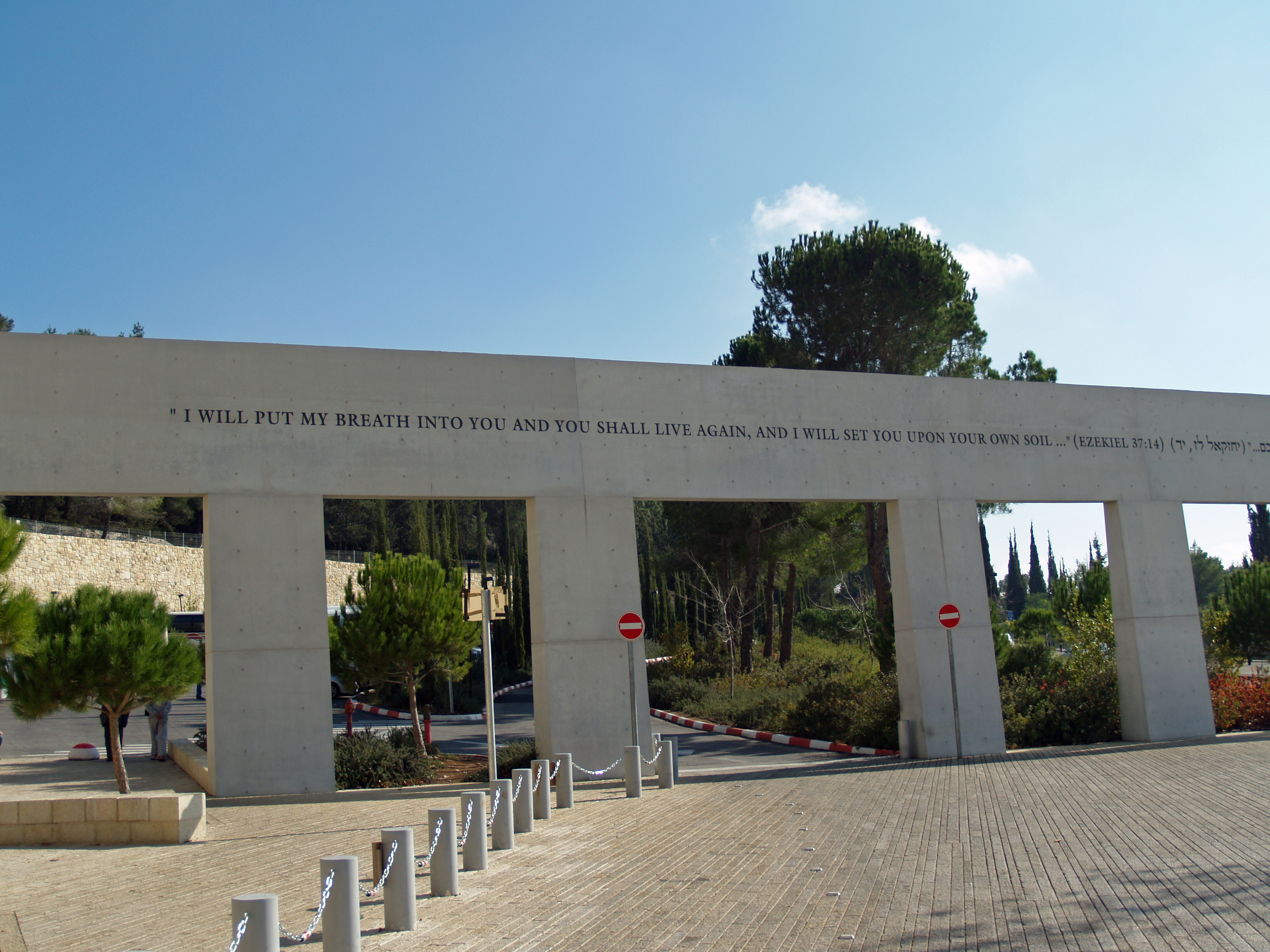 Yad Vashem memorial to survivors.